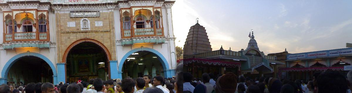 Sidharoodha Math Old-Hubli Hubli-dharwad Authour and Source : Karnataka (North), India